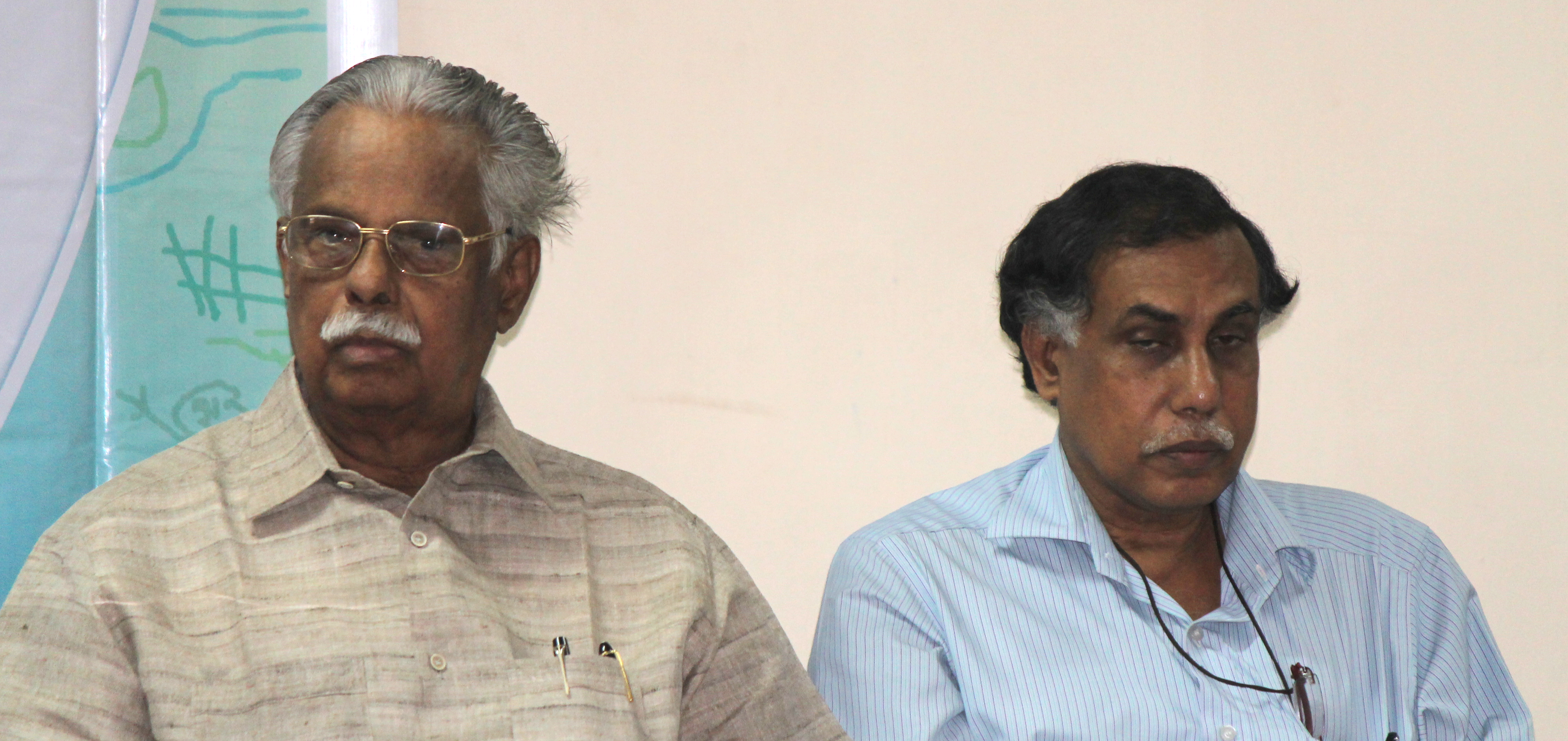 T Padmanabhan and P K Parakkadavu